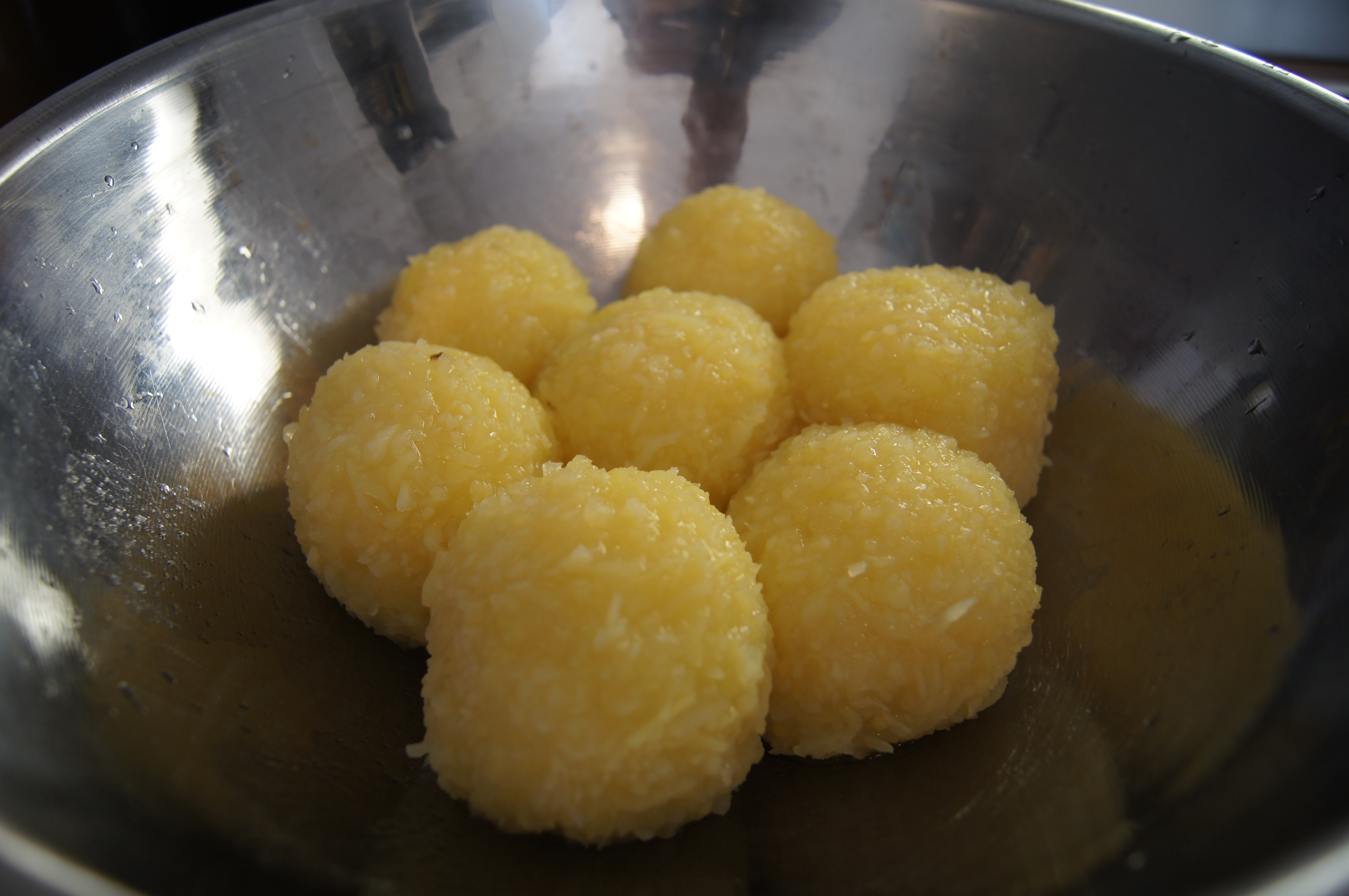 Making of Thüringer Klöße. The finished dumplings